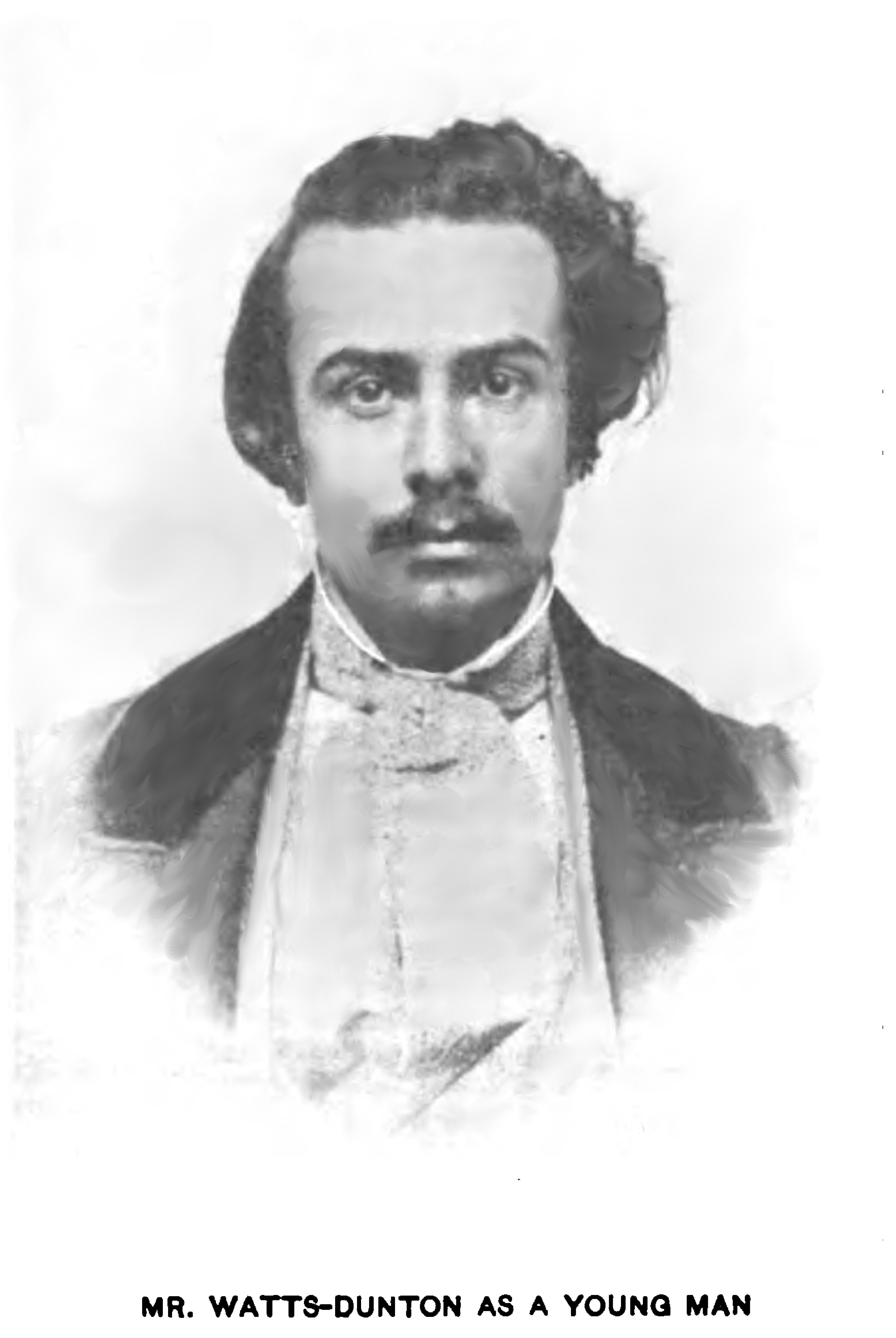 Theodore Watts-Dunton (12 October 1832 - 6 June 1914) was an English critic and poet.